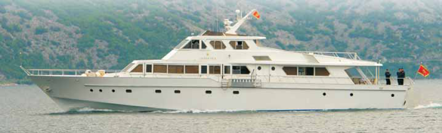 Jadranka Presidential yacht in ownership of Military of Montenegro